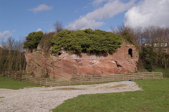 Remains of Holt Castle. This was built in the 13th century following the conquest of North Wales by King Edward I. After playing a crucial part in the Civil war in the 17th c. it was partly demolished and the stones from the site were used to build Eaton Hall. The remains of the castle, shown above, are believed to be the inner courtyard. The building was also called Castle Lyons originally.